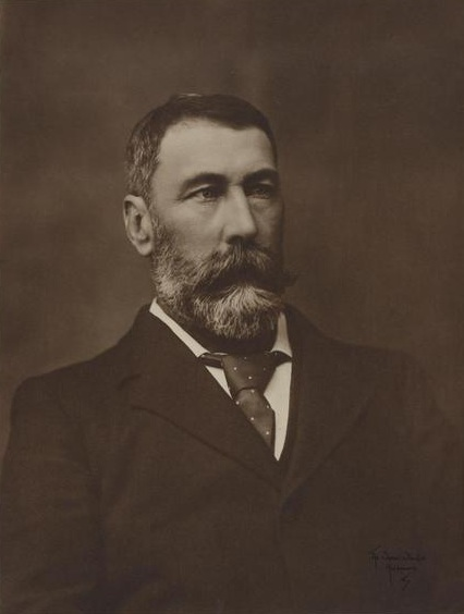 Richard Edward O'Connor, a member of the Australian Senate from 1901 to 1903 and later a High Court judge